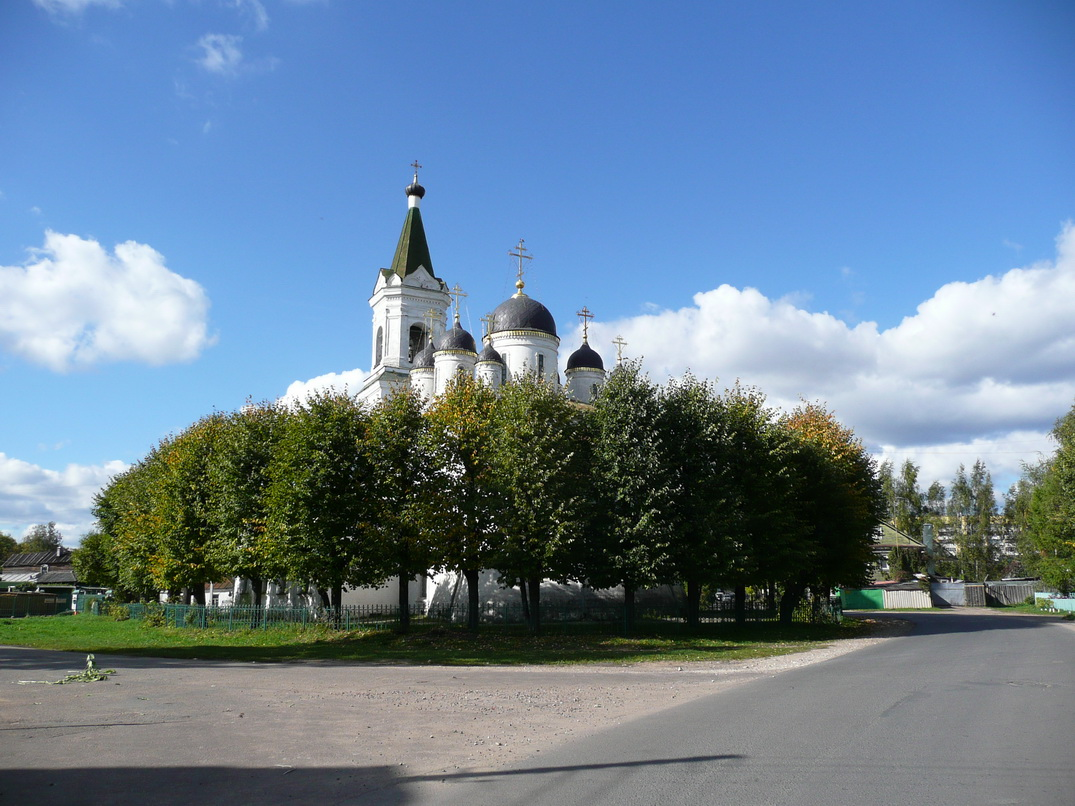 The White Trinity Church in Tver